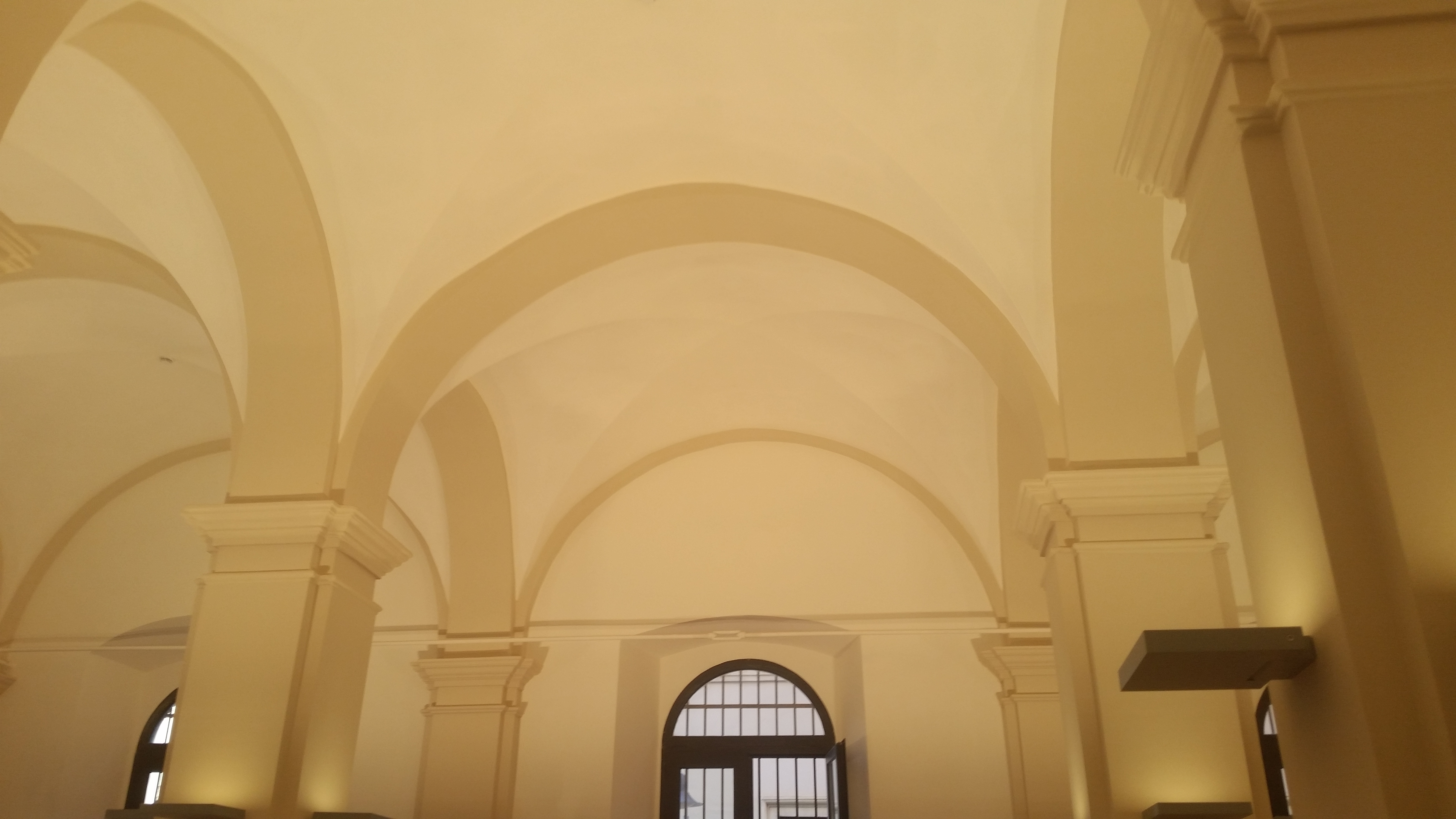 Palazzo Mensini in Grosseto